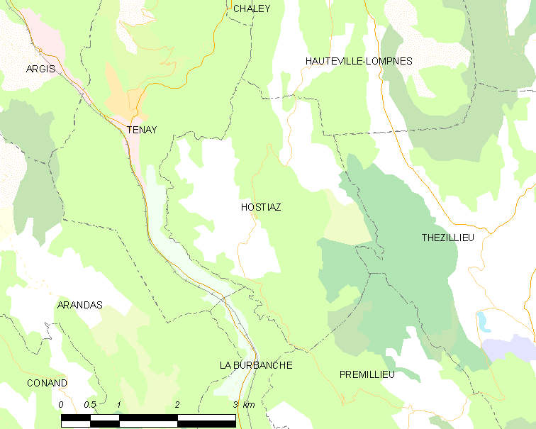 Map of French commune: Hostiaz Map commune FR insee code 01186.png